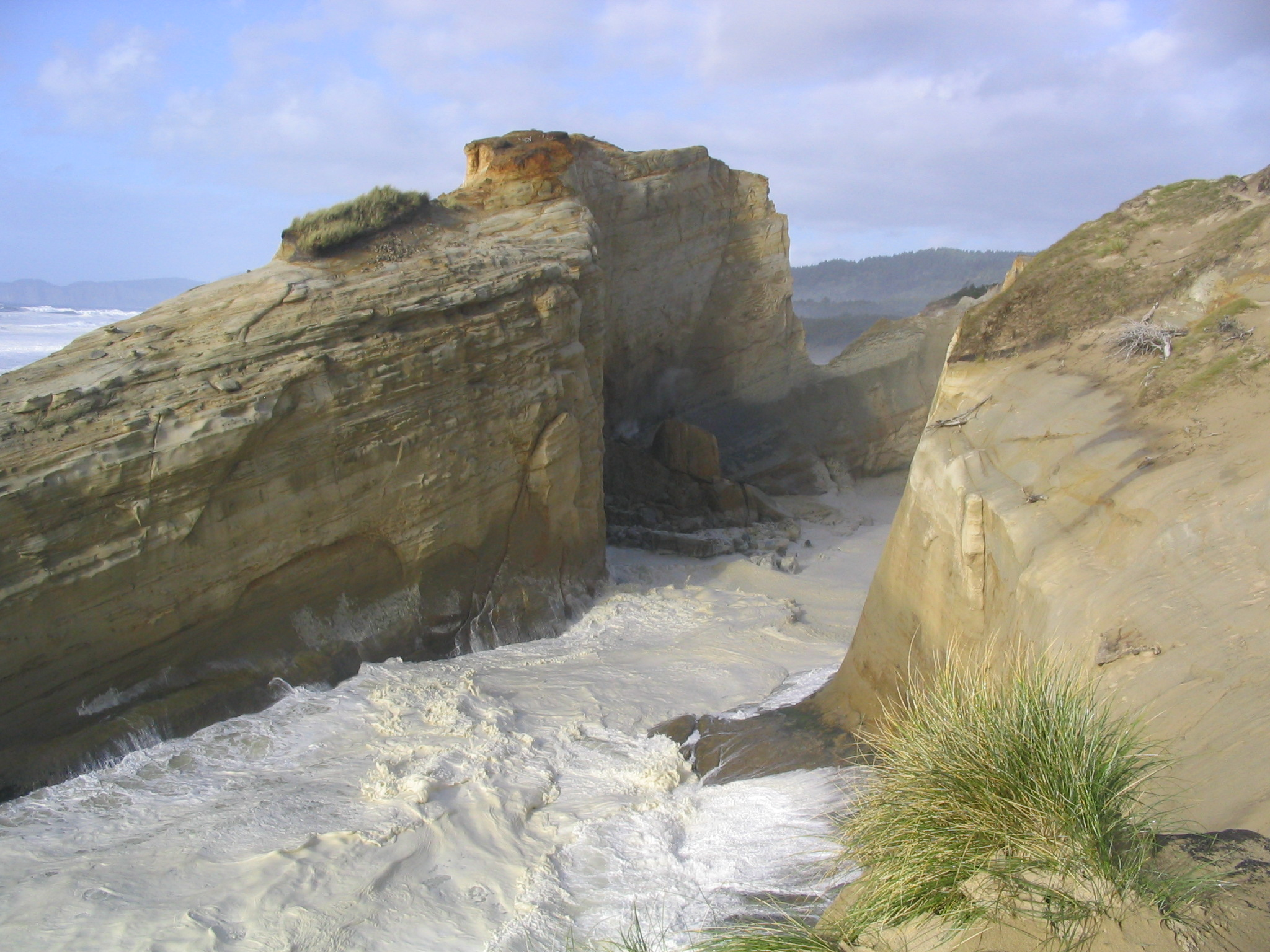 A cliff on the Oregon coast, USA.